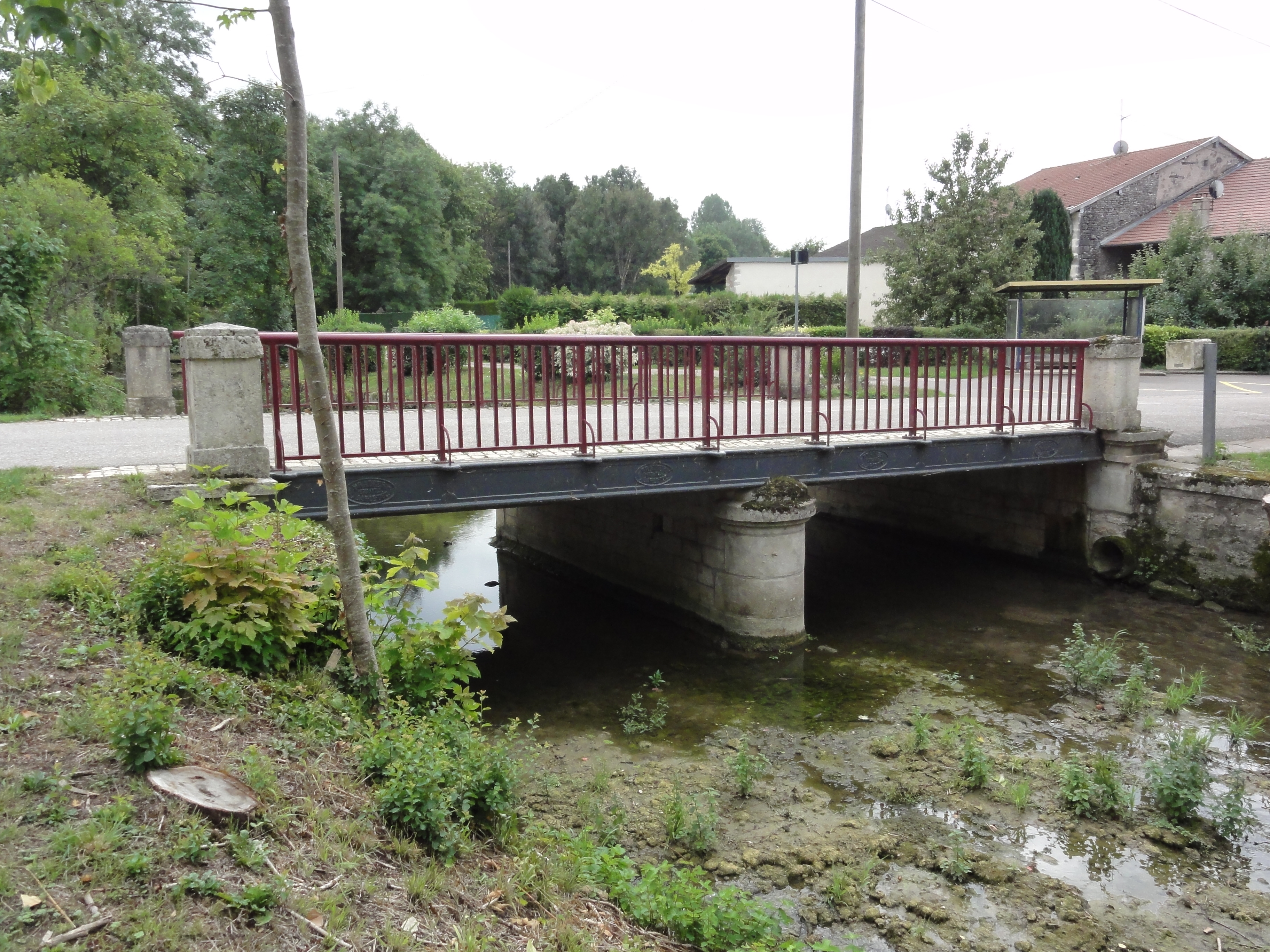 Marson-sur-Barboure (Meuse) pont de la Barboure